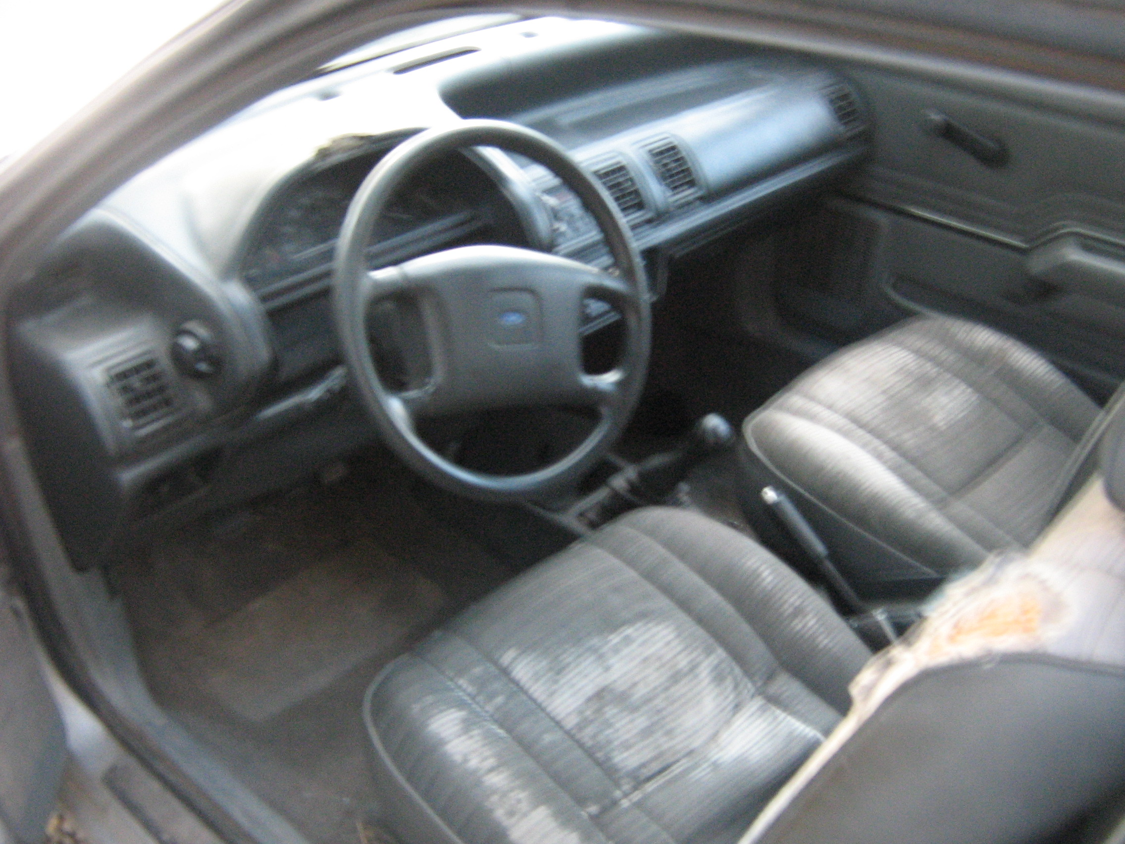 1988 Ford Tempo Interior - dirty - yuck